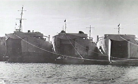 Three Royal Australian Navy landing ships tank (LST) in reserve at Sydney in 1946. From left to right the ships are HMAS LST 3022, HMAS LST 3501 (later renamed HMAS Labuan) and HMAS LST 3008